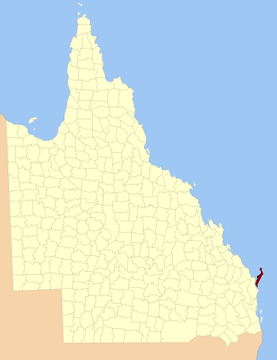 Location of the county in Queensland, one of the Cadastral divisions of Queensland